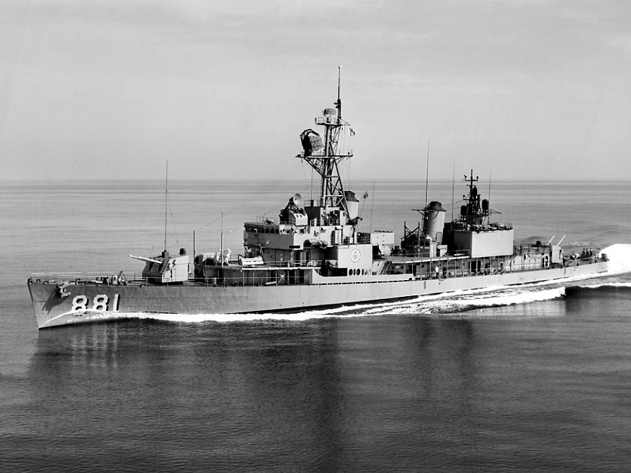 The U.S. Navy destroyer USS Bordelon (DD-881) underway at sea on 20 July 1964. She shows the appearance of most FRAM-I destroyers: twin 5"/38 gun mounts fore and aft; triple torpedo tubes on the 01 level just before the redesigned bridge; a tripod foremast to support newer and heavier surface- and air-search radar antennas; an ASROC launcher and control cabin between the heightened stacks; a DASH hangar and landing pad; and a short mast, carrying the electronic warfare antennas, atop the hangar.